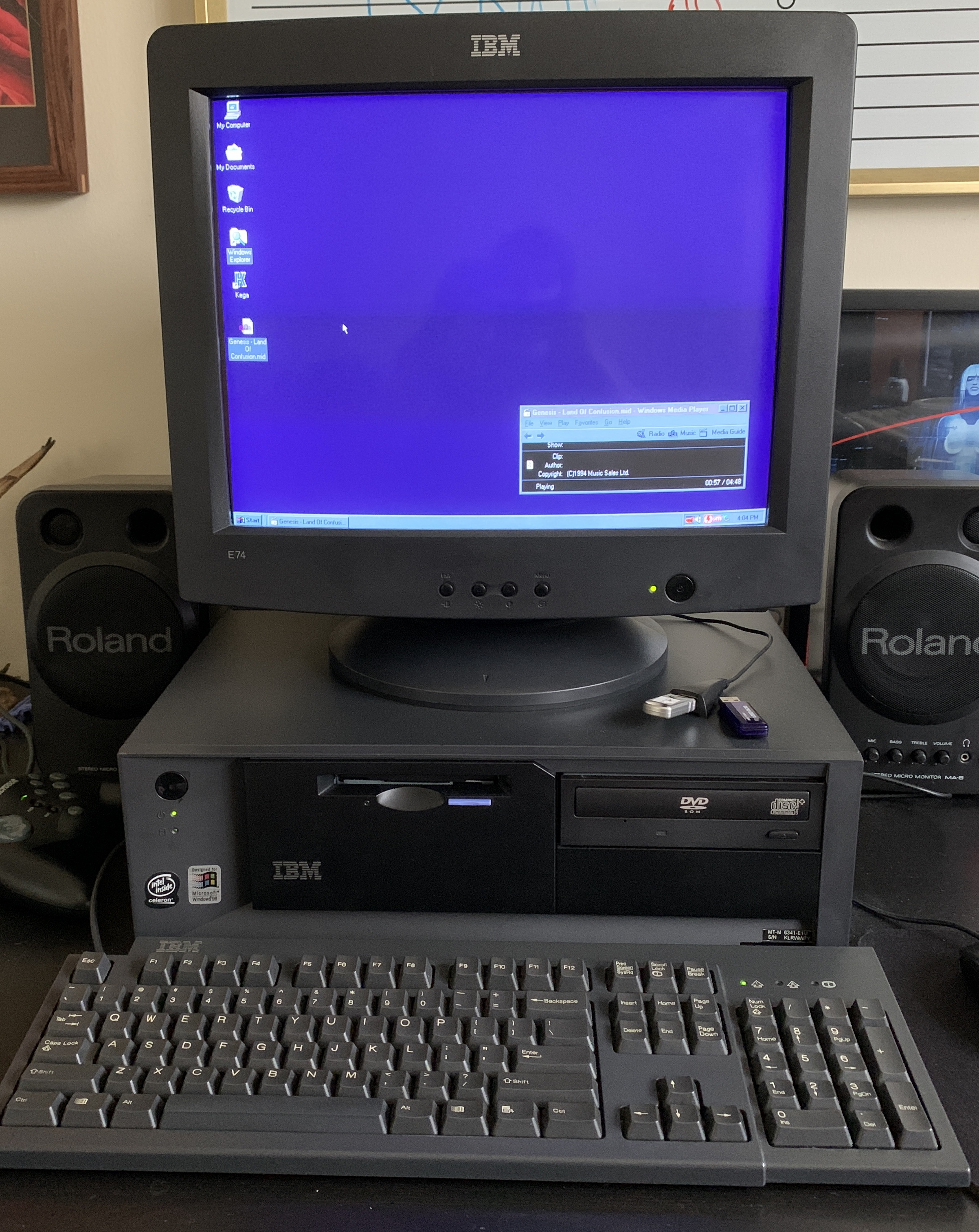 A picture of an IBM Netvista A22 running Windows 98